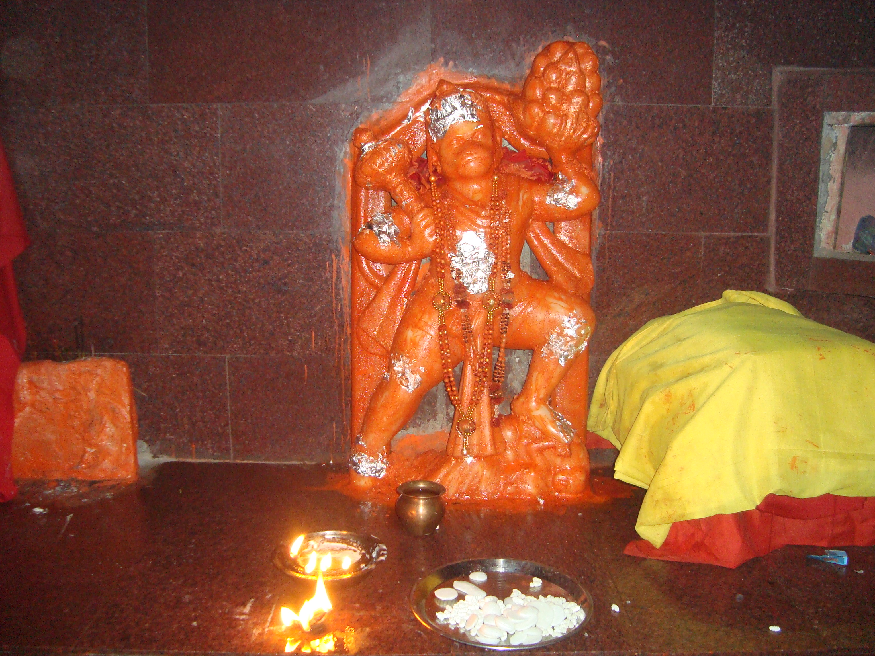 it is photo of temple of khohari village in alwar rajasthan taken by Er. PANKAJ YADAV